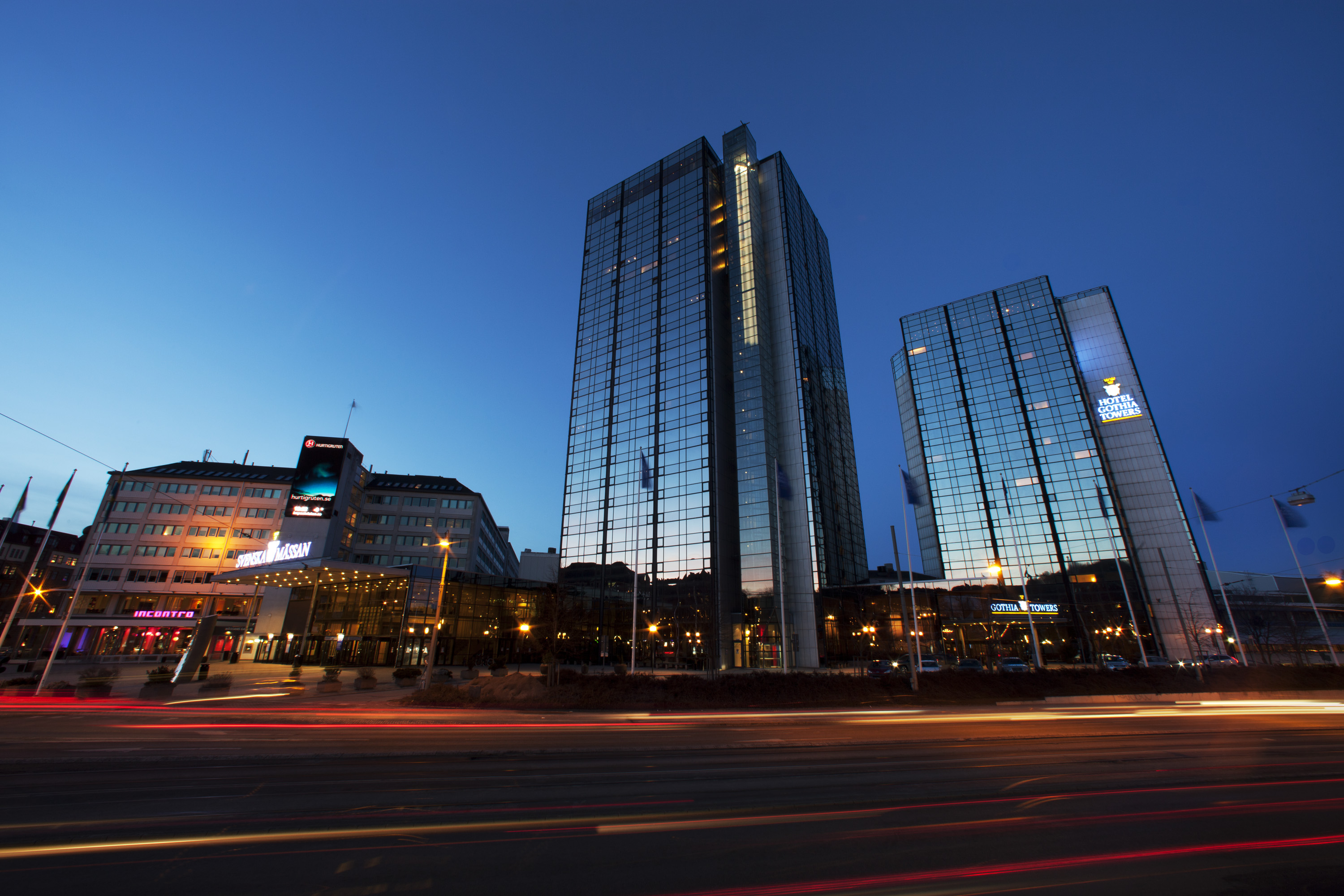 Gothia Towers at night seen from Korsvägen in Gothenburg.